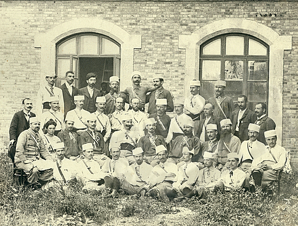 Sokol Congress in Varna 1902 with Vladimir Karamanov